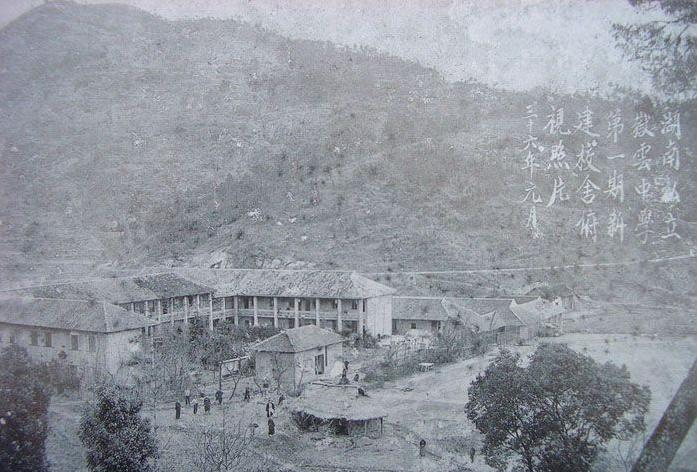 yueun in 1947.